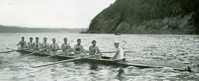 1896 cornell varsity crew immediatedly after wining the IRA over Harvard, Penn and Columbia